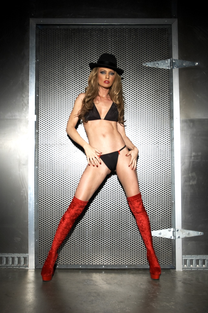 British actress Kelle Marie.